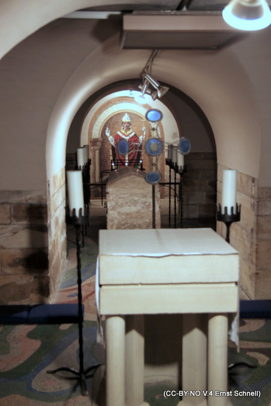 The photo shows the sarcophagus of Archbishop St. William Fitzherbert of York between an altar and a mural of his image in the crypt of York Minster.